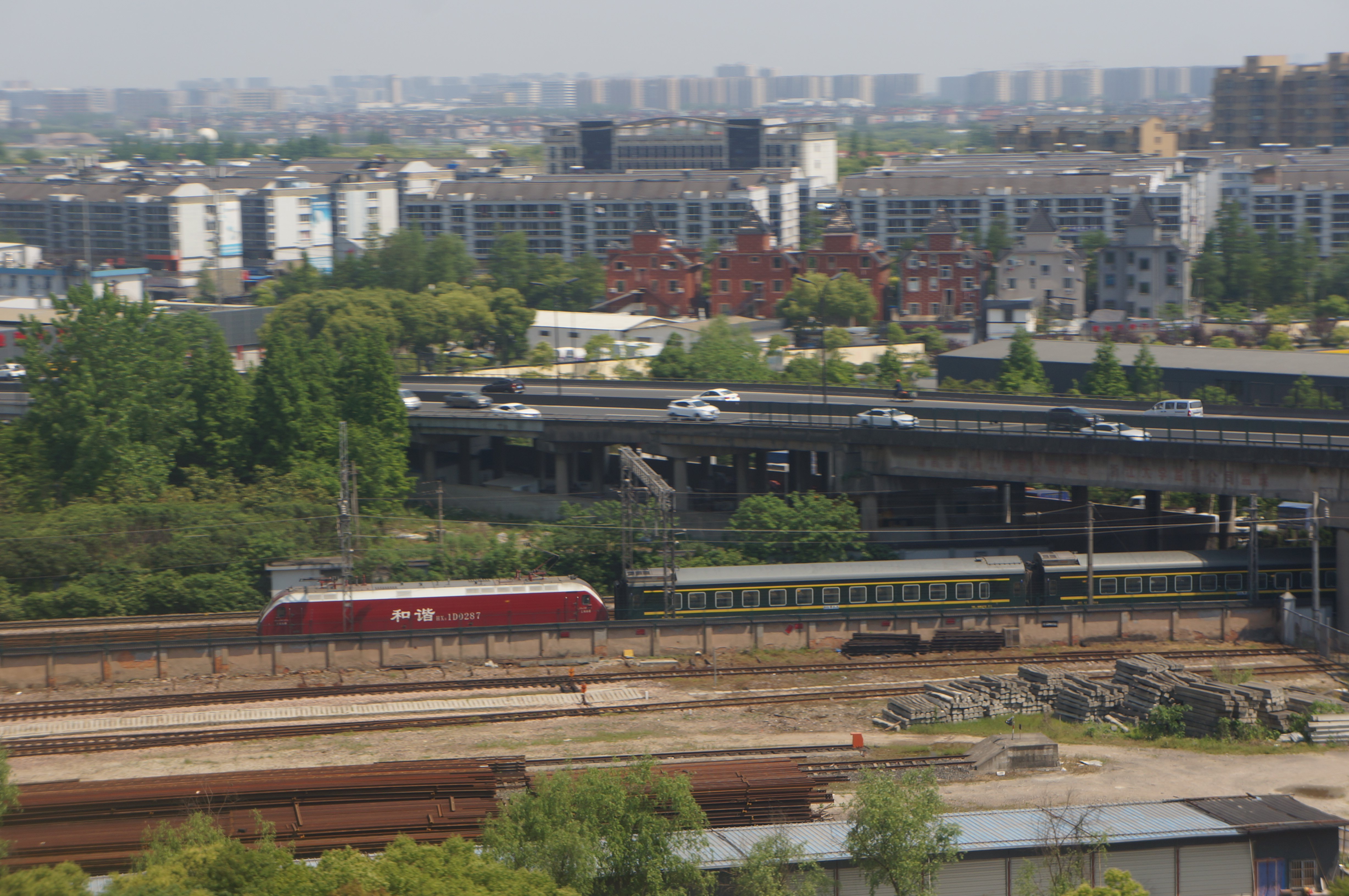 201704 HXD1D-0287 hauls Z176 passes Jianqiao Station